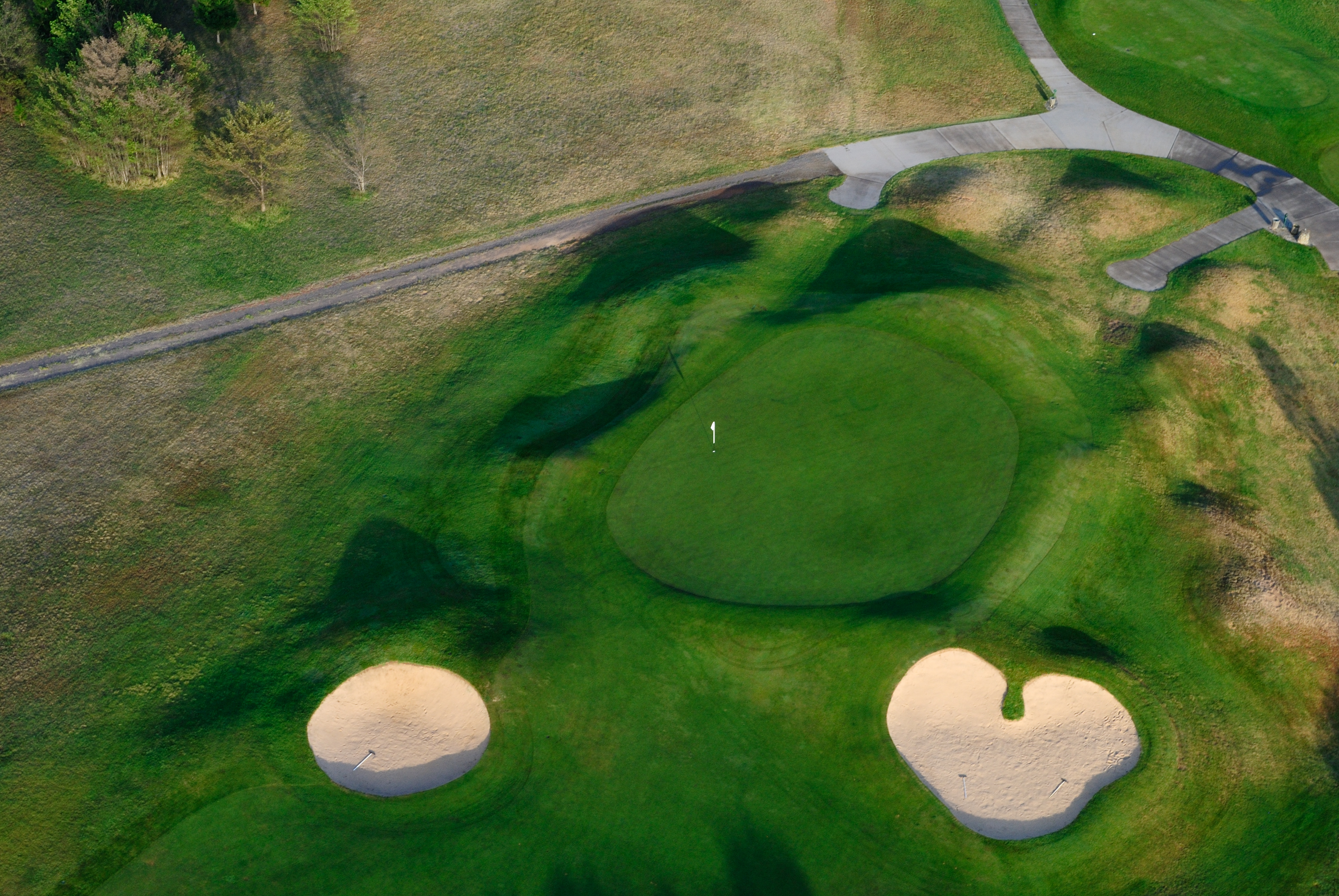 A putting green at the Royal Canberra Golf Club.